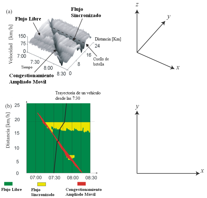 Meassurements